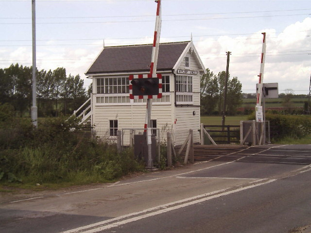 Trains Crossing